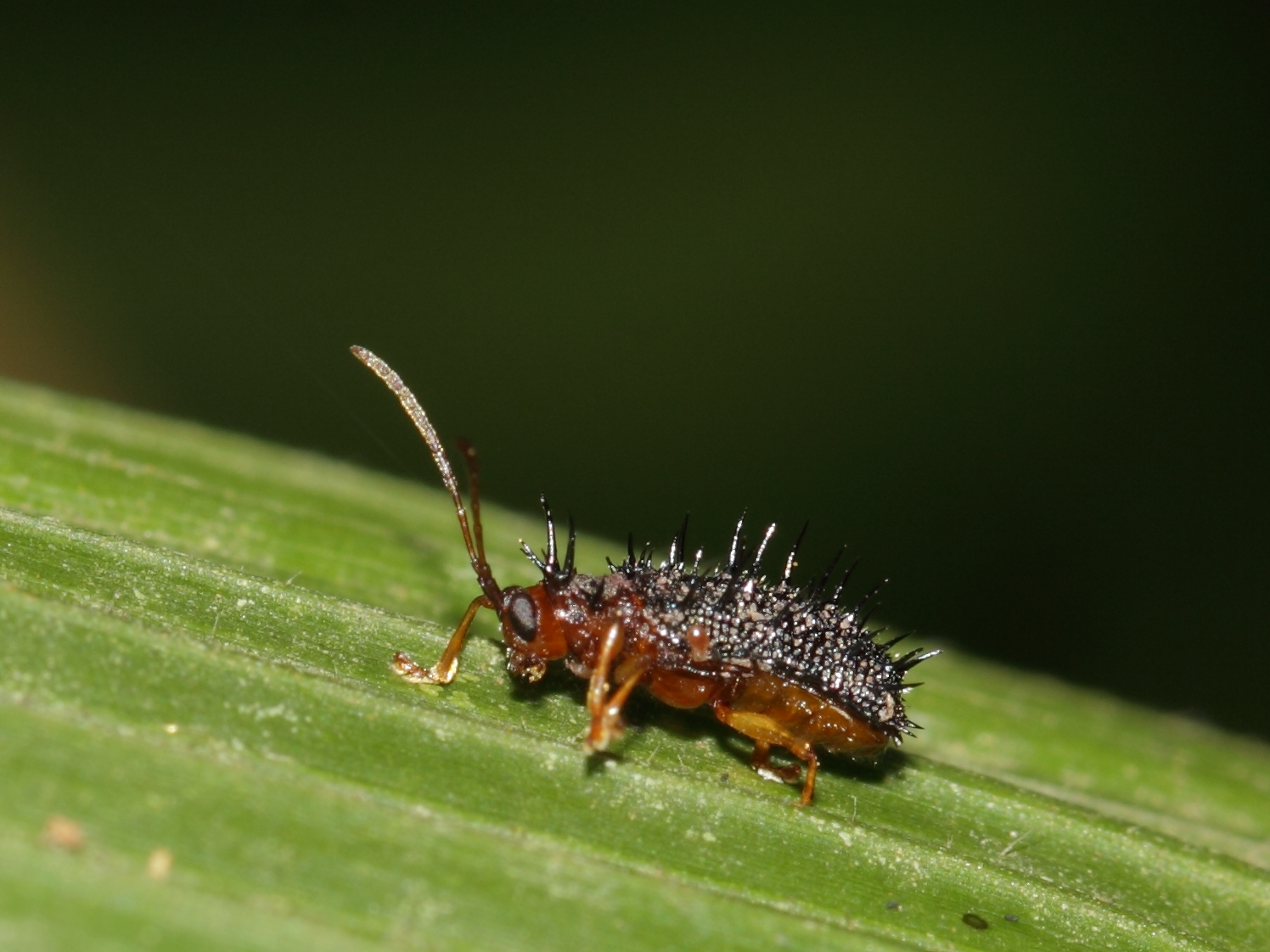 This rice hispa that usually mines&scrapes the leafes of rice I found at the edge of a lowland rainforest of the Lake Rawa NP (West Java) where some rice fields are maintained despite the lack of roads. more about its life cycle and pest control: Dicladispa armigera OLIVIER, 1808 (Rice Hispa) [det. "speech path girl", 2011, based on this photo] Subfamily: Hispinae GYLLENHAL, 1813 (Stachelblattkäfer) Family: Chrysomelidae (leaf beetles, Blattkäfer) Superfamily: Chrysomeloidea Suborder: Polyphaga Order: Coleoptera (beetles, Käfer) Indonesia, W-Java, Serang, vic. Bulakan: Danau Rawa NP, 120-340m asl., 13.03.2011 Distribution: SE-Asia, Africa IMG_0550